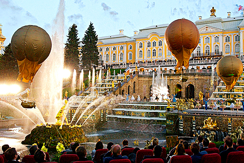 PETERHOF. A water and musical show, Peterhof Magical Fountains.